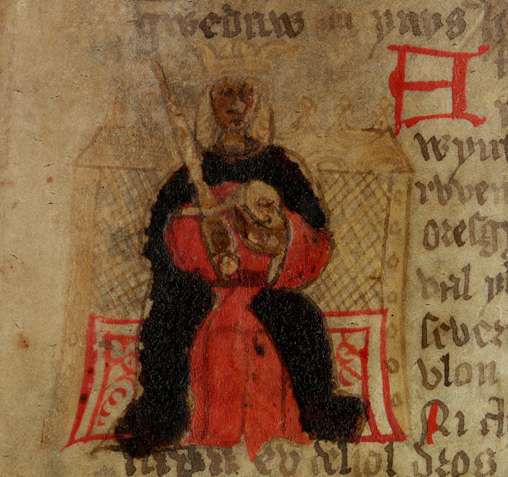 Severus. A crude illustration from a 15th century Welsh language version of Geoffrey of Monmouth’s highly influential Historia Regum Britanniae (‘History of the Kings of Britain’)